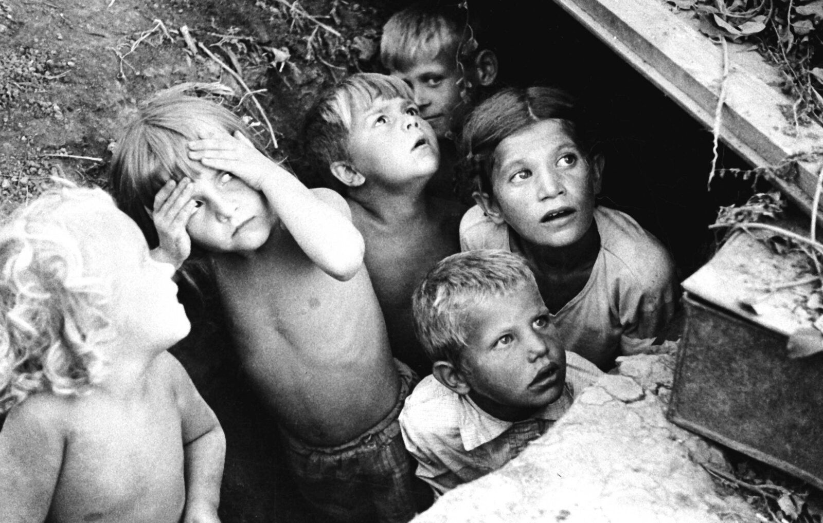 Children during air raid : Soviet children during a German air raid in the first days of the war.(near Minsk,Belorussia)